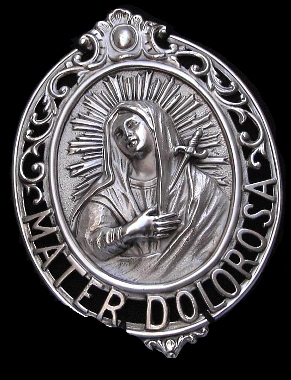 medal of Our Lady of Sorrows Taranto